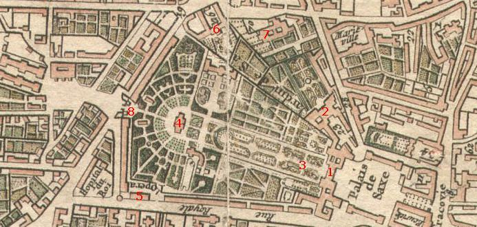 Plan of the Saxon Garden (Jardin de Saxe) in Warsaw. Features: 1. Saxon Palace. 2. Brühl Palace. 3. Garden sculptures. 4. The Great Salon. 5. Court Theatre (so-called Operalnia). 6. The Blue Palace. 7. The Church of St. Anthony of Padua. 8. The Iron Gate.